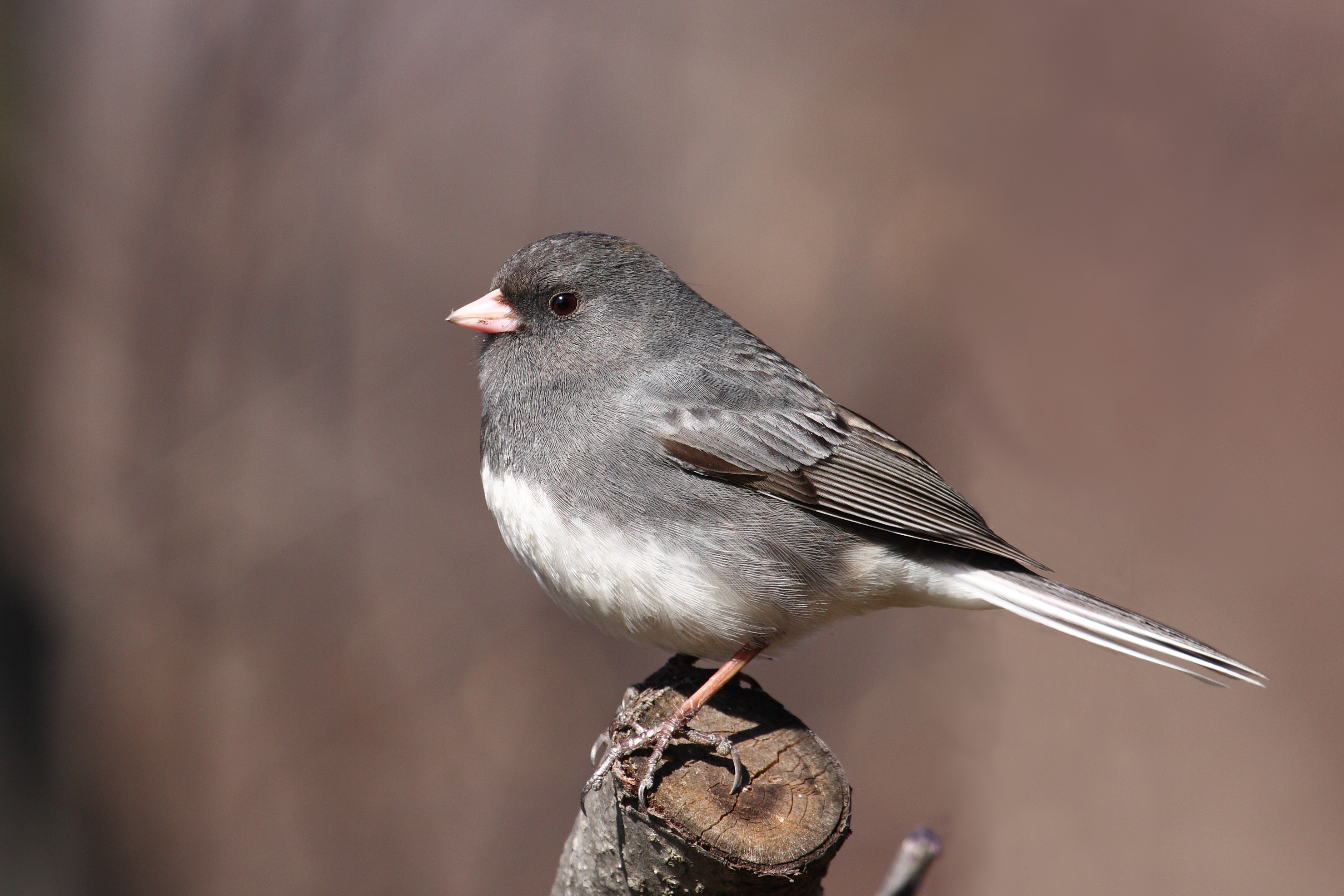 Dark-eyed Junco (Junco hyemalis hyemalis) male, Cap Tourmente National Wildlife Area, Quebec, Canada.